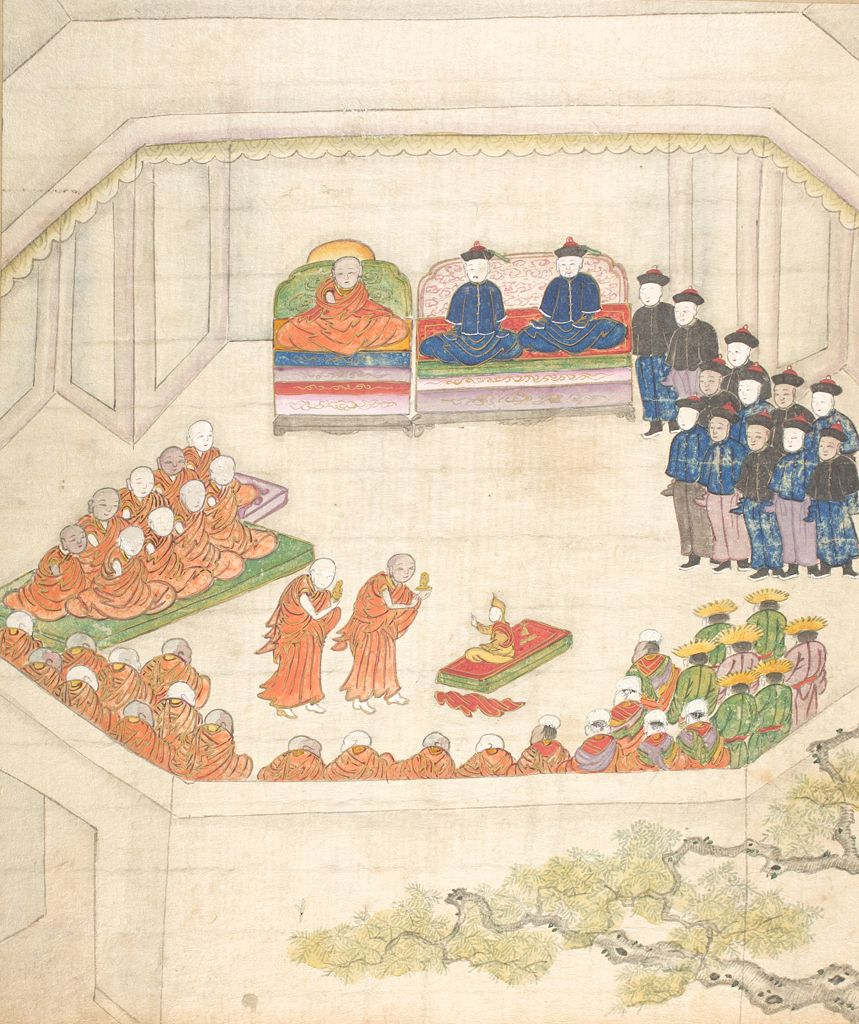 Finding of a Dalai Lama (painting from Qing Dynasty).